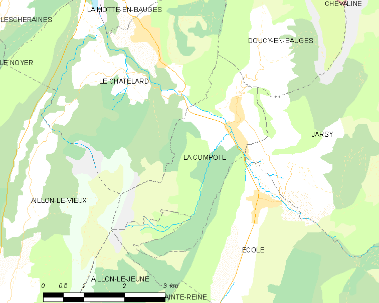 Map of French municipality